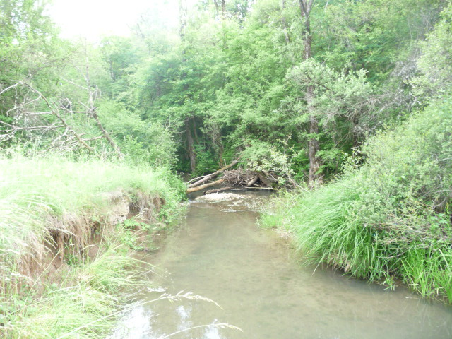 Zabrdska river after village of Vradlovtsi in Godech minicipality, Bulgaria